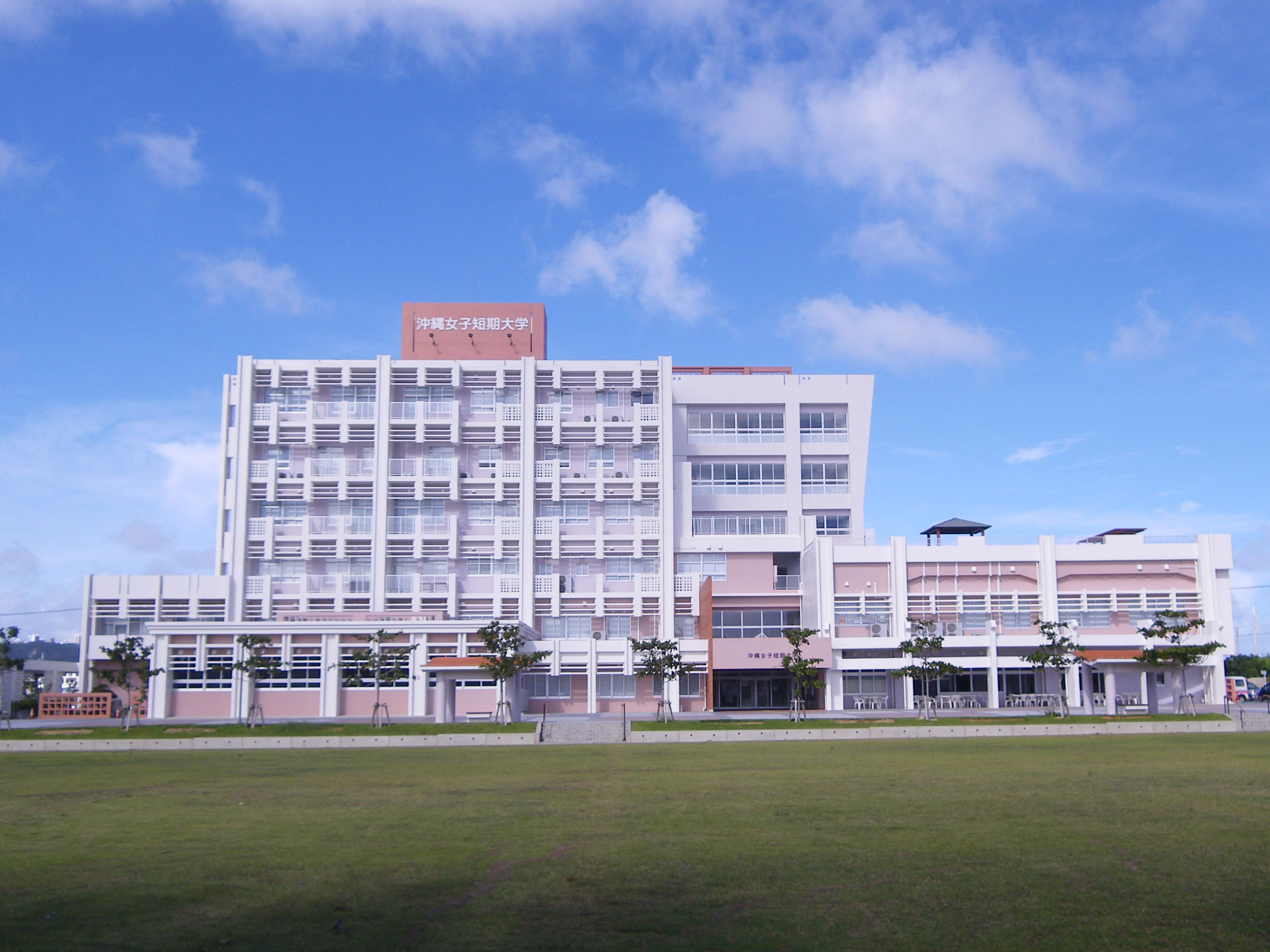 Okinawa Women's Junior College